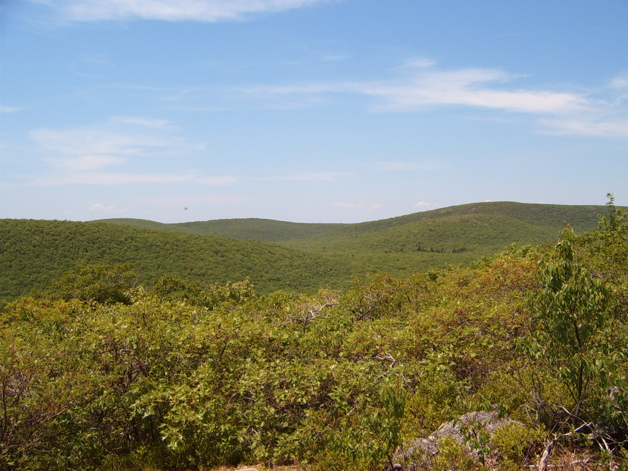 Taken with digital camera in June, 2005. , image created by uploader